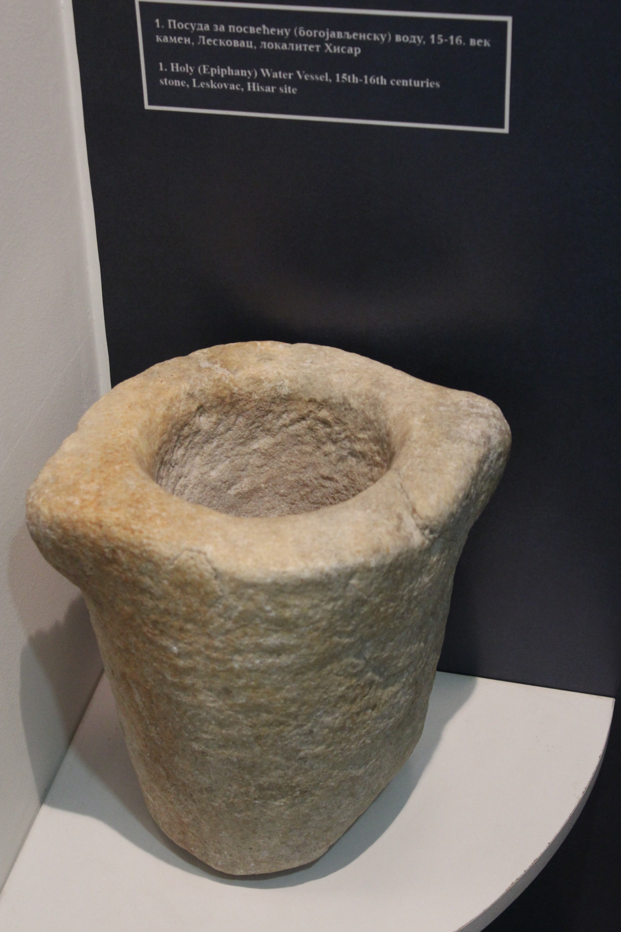 Holy (Epiphany) water vessel, 15th-16th centuries stone, Leskovac, Hisar site. Srpski (latinica): Posuda za posvećenu (bogojavljensku) vodu, 15-16 vek, kamen, Leskovac, lokalitet Hisar.